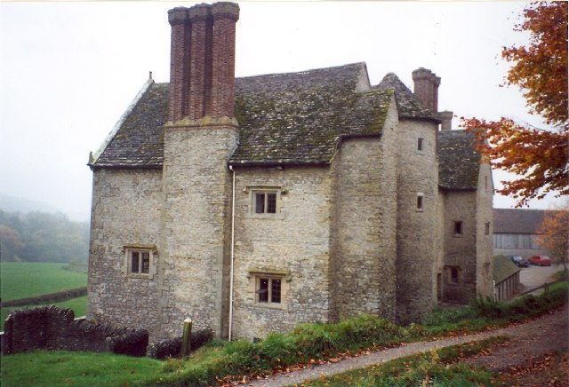 Wilderhope Manor, Rushbury. This 16C manor house has been a Youth Hostel for many years. This view is of the rear; the front has four gables. The hall, with its bay window, has always been one storey high, with a Great Chamber above it. Note the semi-circular stair-turret with a conical roof.